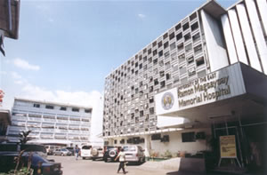 UERM Hospital at University of the East Ramon Magsaysay Memorial Medical Center, Metro Manila, Philippines